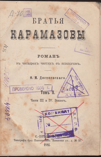 Second volume (including Parts III–IV and Epilogue) of the first Russian edition of The Brothers Karamazov, published in Saint Petersburg in 1881 by Типография брат. Пантелеевыхъ, contemporary quarter leather bound with cloth-covered boards, 15×20 cm